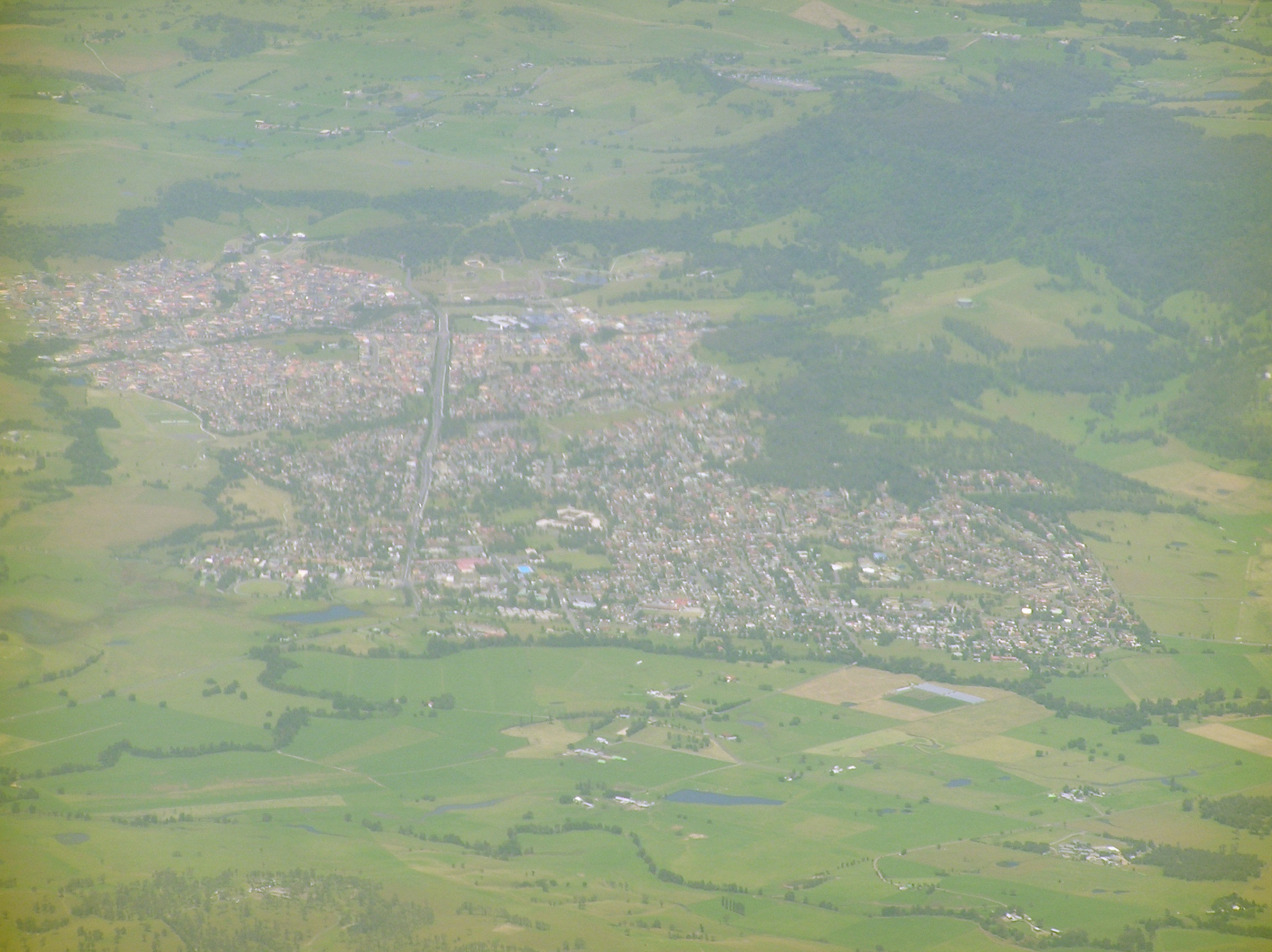 aerial photo of Albion Park